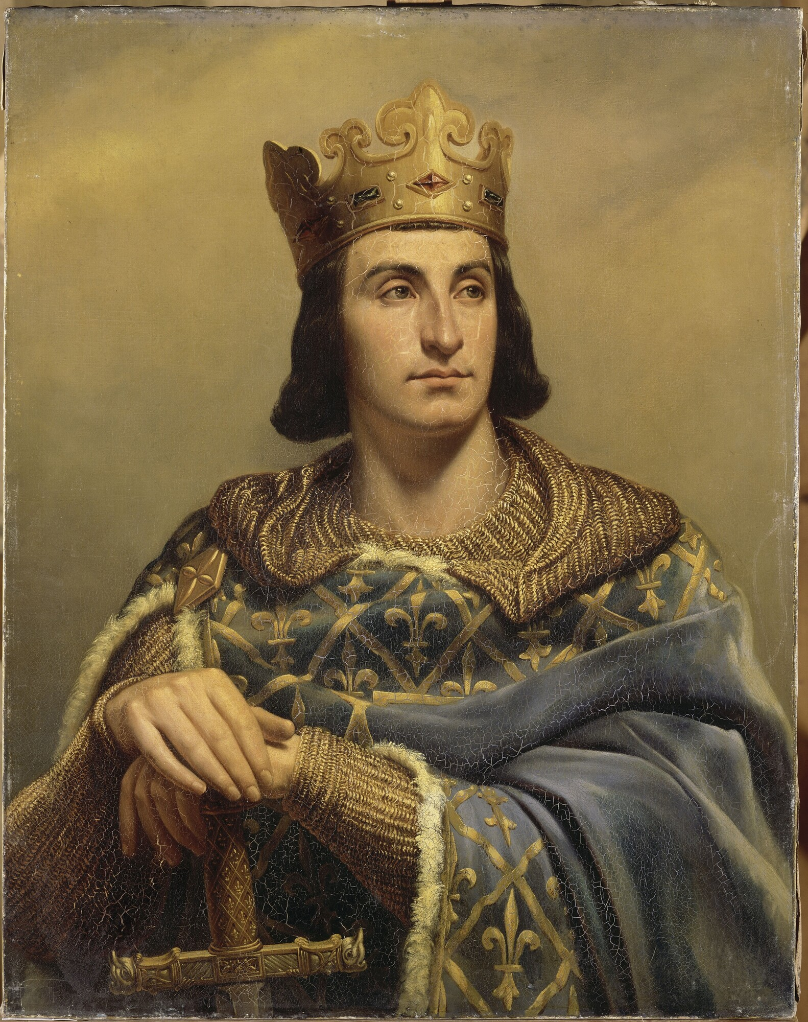 This painting belongs to the Portraits of Kings of France, a series of portraits commissioned between 1837 and 1838 by Louis Philippe I and painted by various artists for the Musée historique de Versailles.